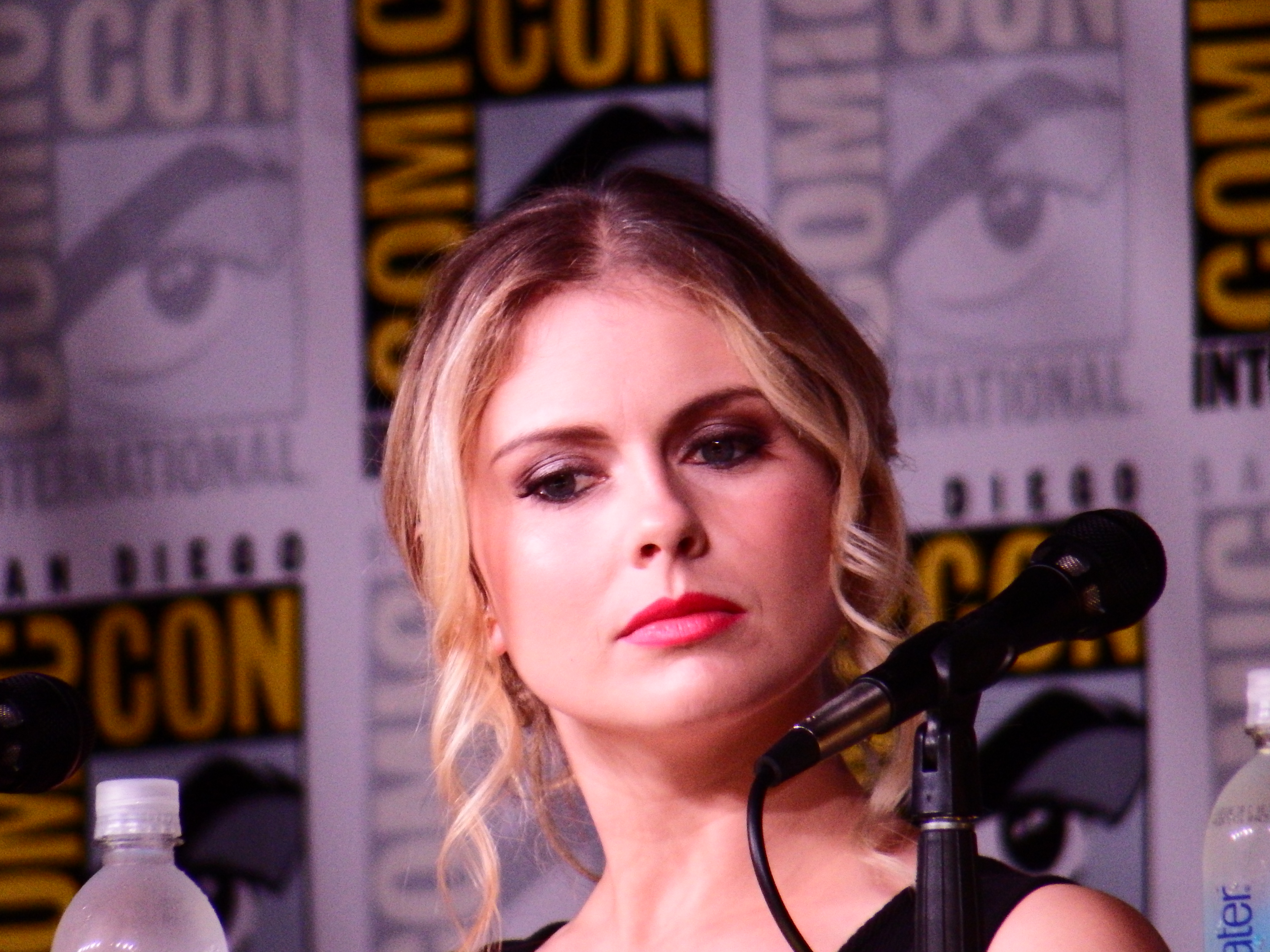 Rose McIver @ Izombie panel SDCC 2016